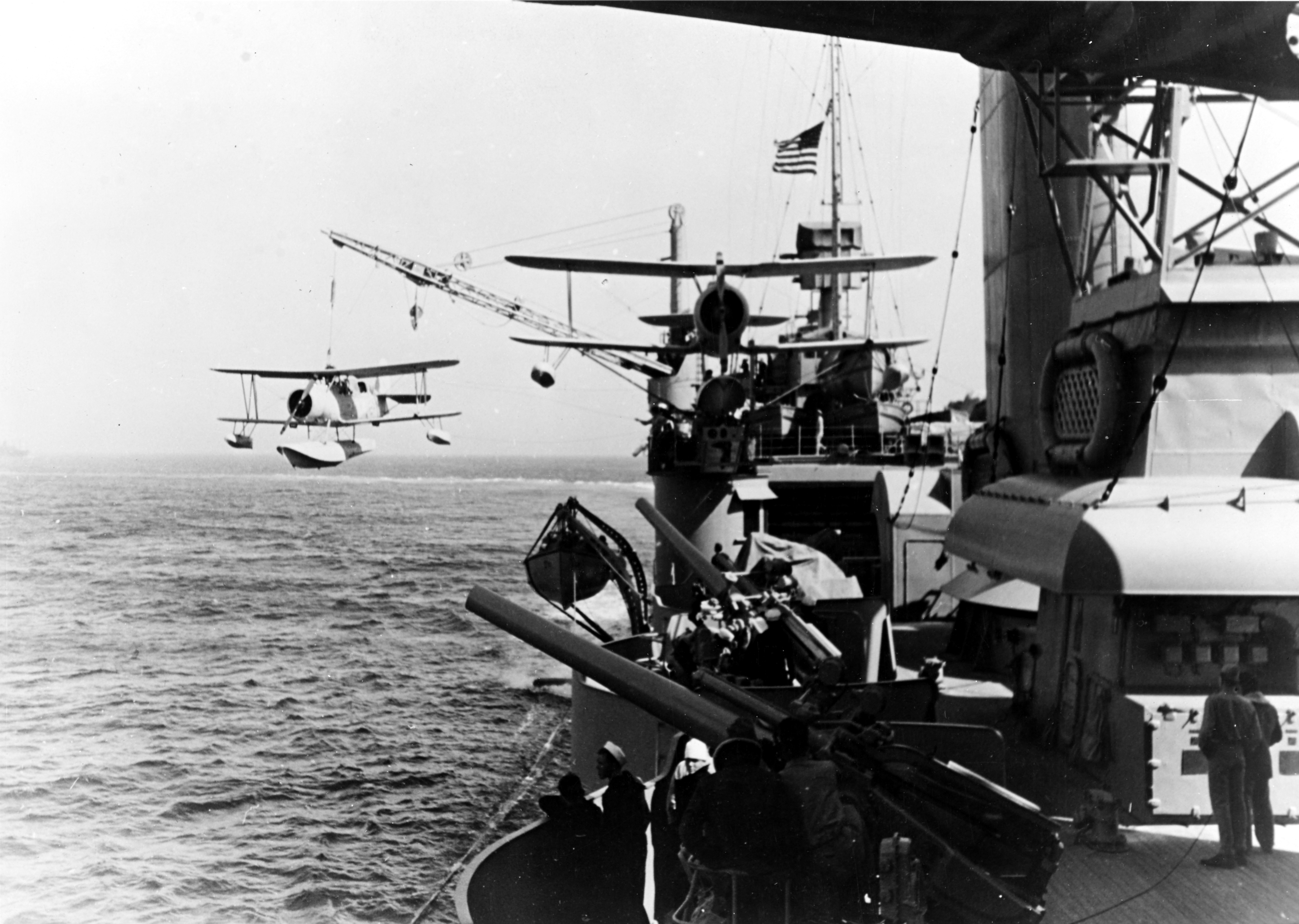 The U.S. Navy heavy cruiser USS Tuscaloosa (CA-37) hoists in a Curtiss SOC Seagull scout-observation plane after a patrol while on a convoy to Iceland.